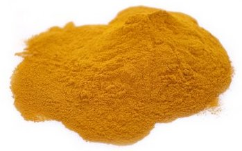 Curcumin